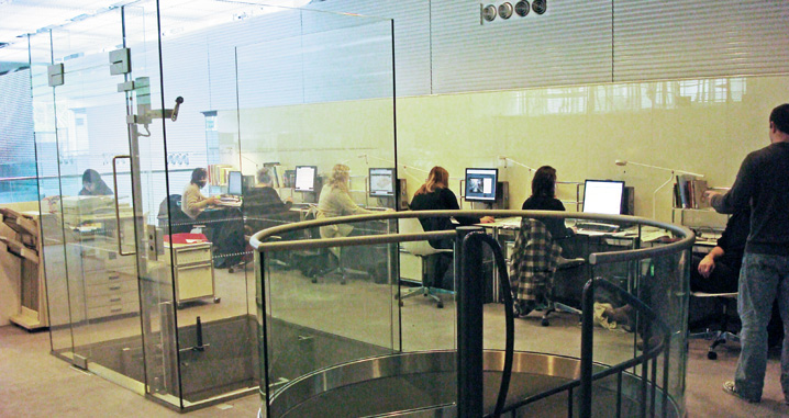 The Post-Graduate study area designed by Foster+Partners in the Sainsbury Centre for Visual Arts for the Sainsbury Institute for Art 2012